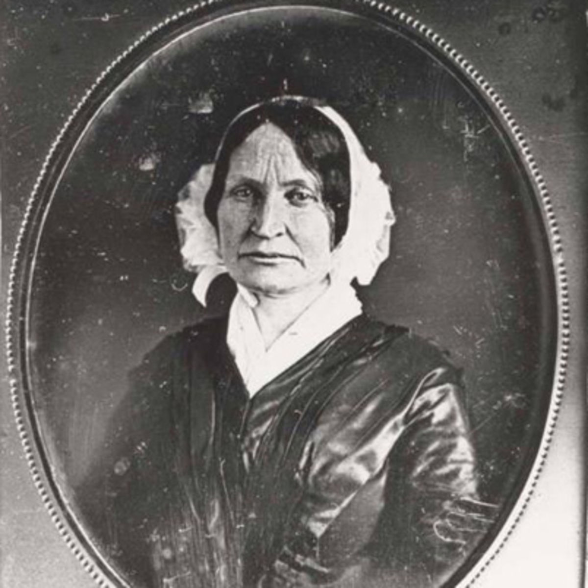 Mary Lyon 1797-1849, American pioneer in women's education. From a daguerrotype.